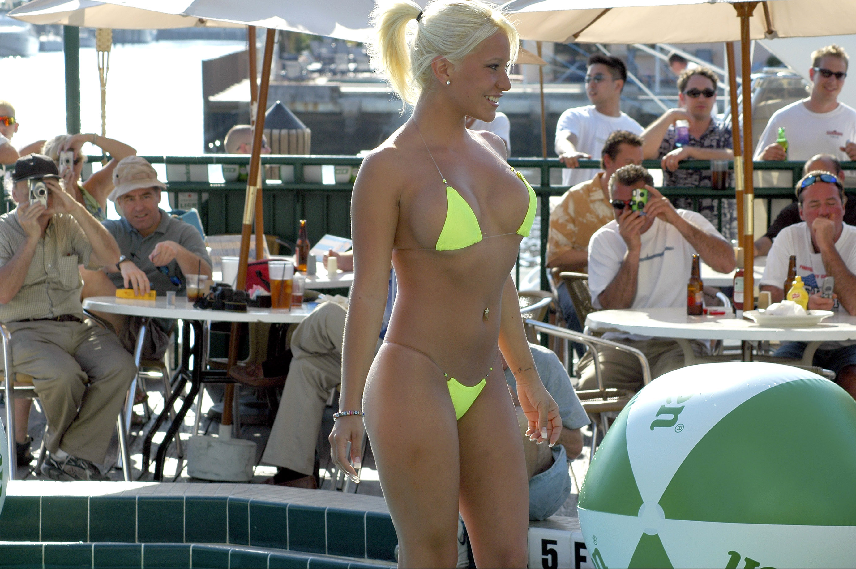 Bikini contest